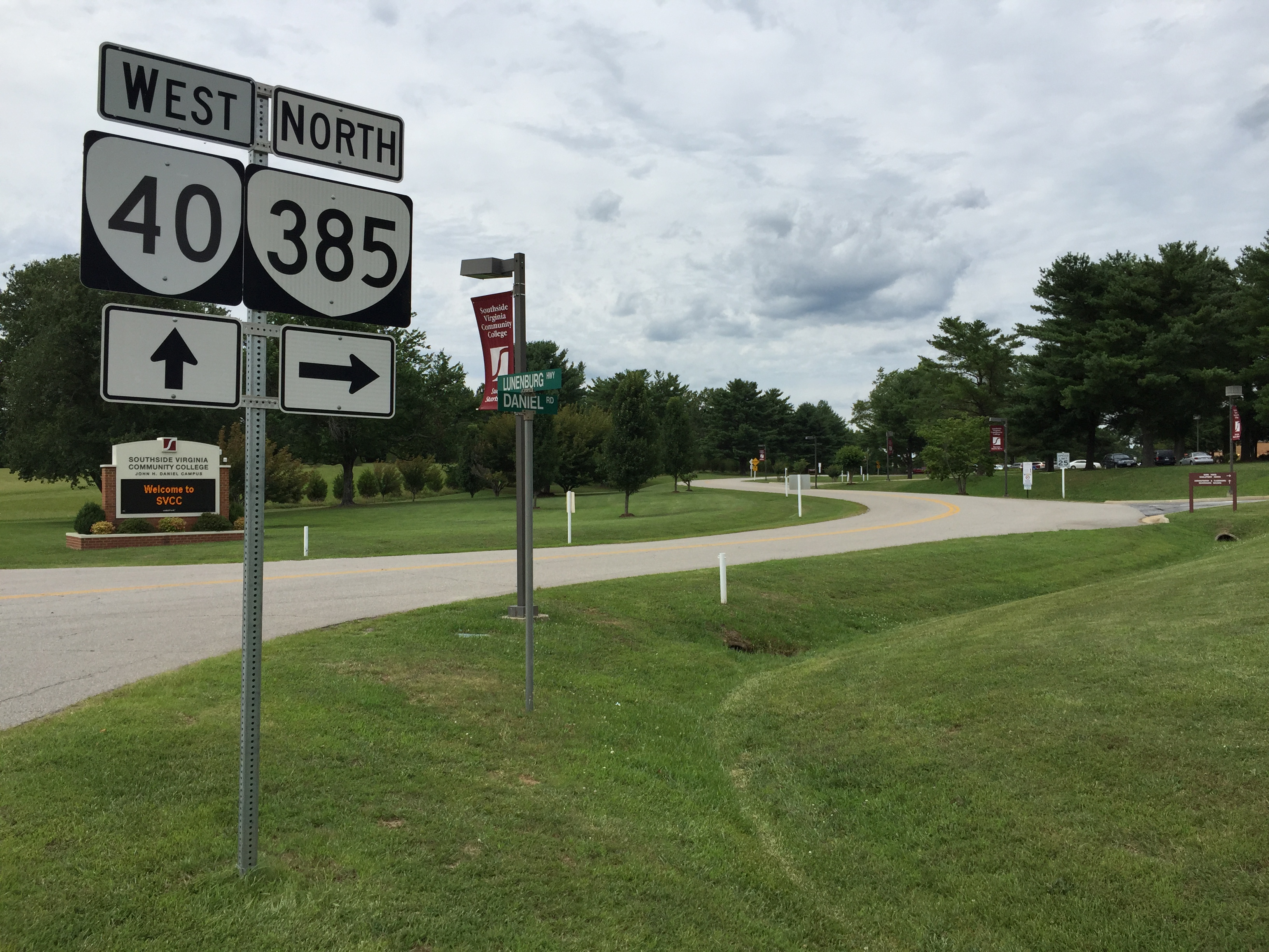 View north along Virginia State Route 385 (Daniel Road) at Virginia State Route 40 (Lunenburg Highway) at the Southside Virginia Community College, John H. Daniel Campus just east of Keysville in Charlotte County, Virginia